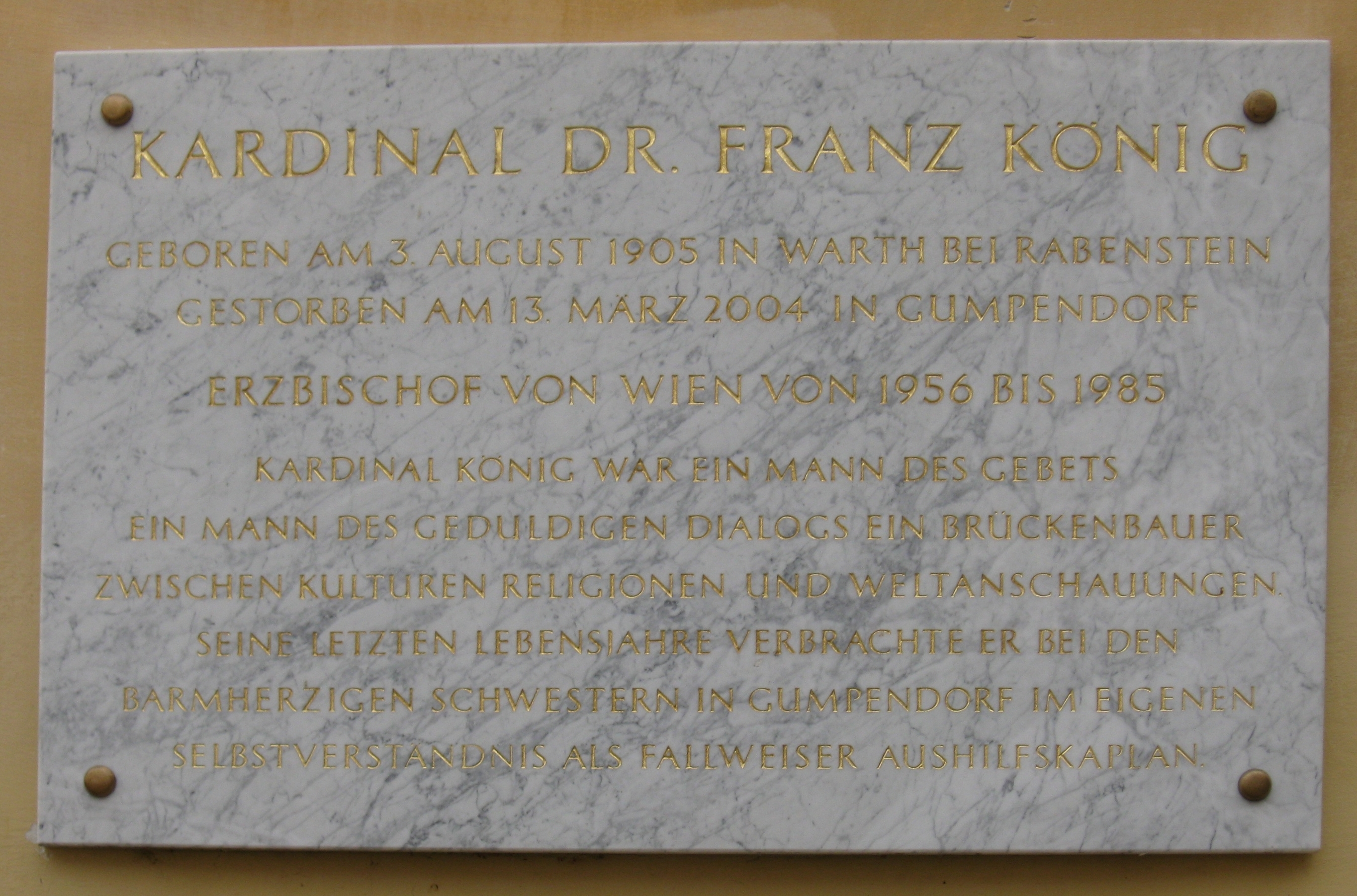 Plaque for Cardinal Franz König at the parish church Gumpendorf in Vienna, Gumpendorfer Straße 109 / Kurt Pint-Platz. Revealed on March 13, 2015.